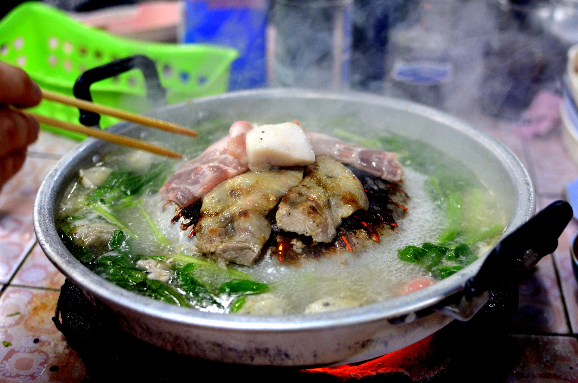 Mu kratha (Thai script: หมูกระทะ) resembles a combination of a Korean barbecue and a Chinese hot pot and the diners cook the food themselves as with fondue. Meat (most often pork) is grilled in the centre while the vegetables and other ingredients, such as fish balls, cook in the soup. It is served with a variety of nam chim (Thai dipping sauces). This dish is normally only available at specialised mu kratha restaurants that are, due to the burning charcoal needed for the barbecue, open to the air although often roofed over against rain.